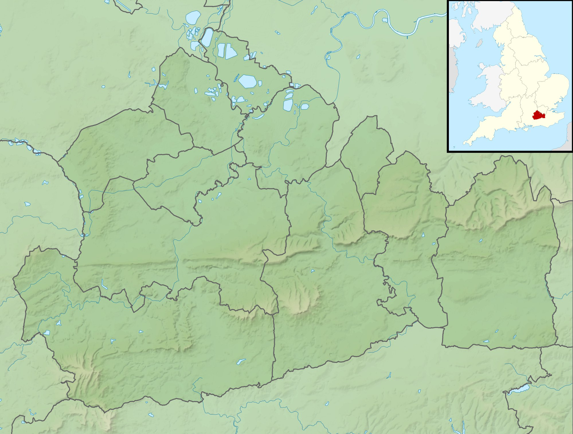 Relief map of Surrey, UK. Equirectangular map projection on WGS 84 datum, with N/S stretched 160% Geographic limits: West: 0.87W East: 0.08E North: 51.50N South: 51.05N